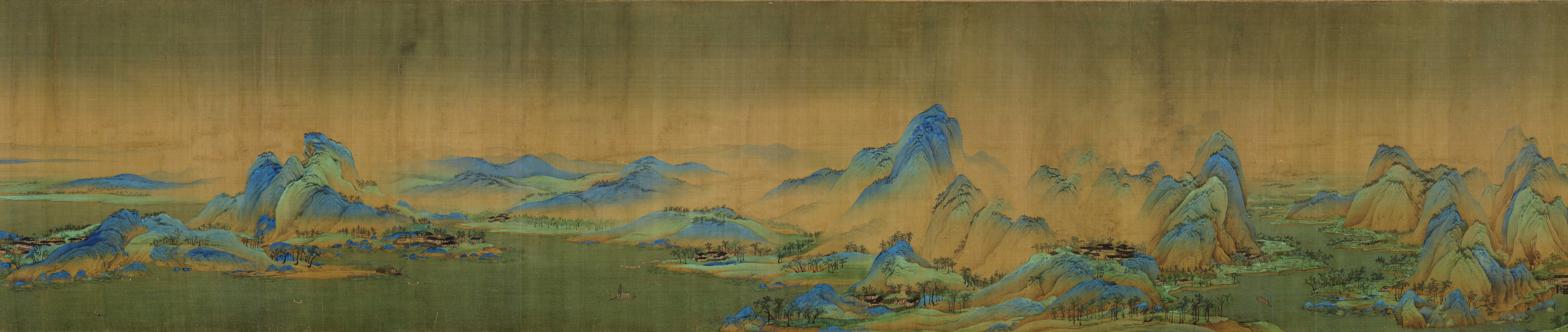 The only surviving work by Wang Ximeng